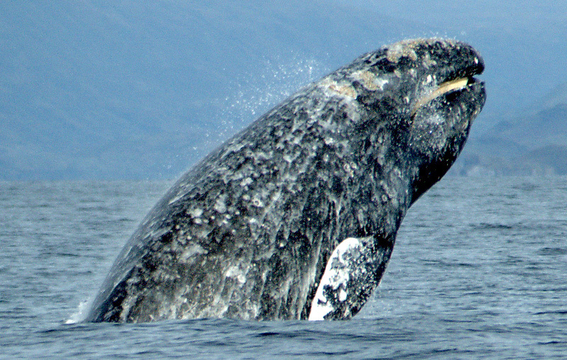 Gray whale (Eschrichtius robustus) breaching.